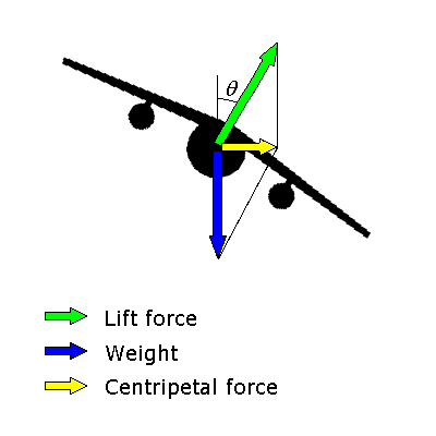 Vector diagram of the forces acting on an aircraft executing a banked turn.